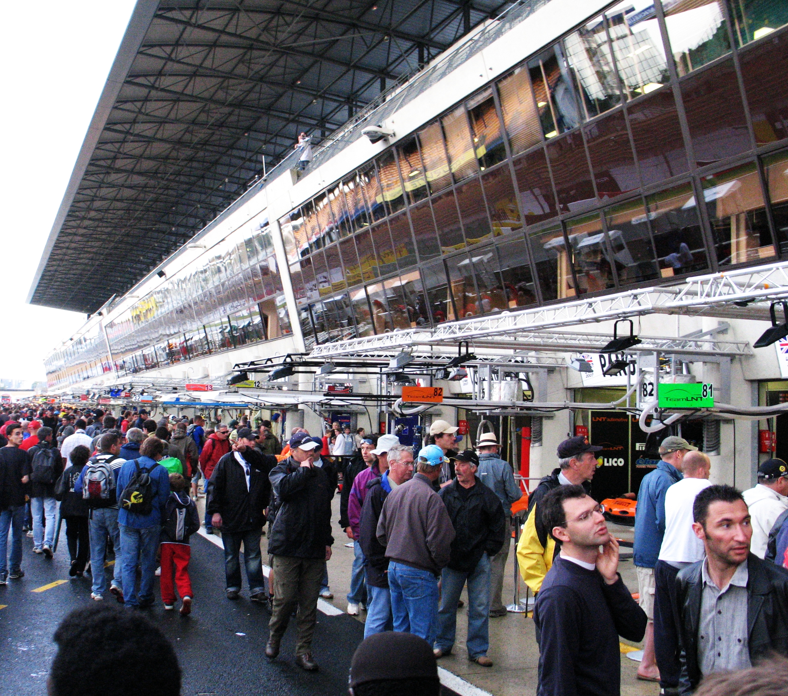 Paddock of the 2007 24 Hours of Le Mans